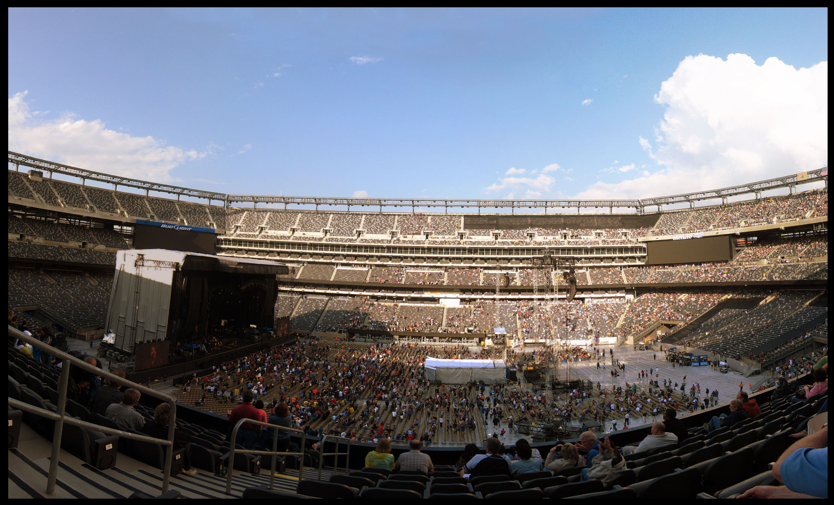 Bon Jovi concert at MetLife Stadium in 2010.